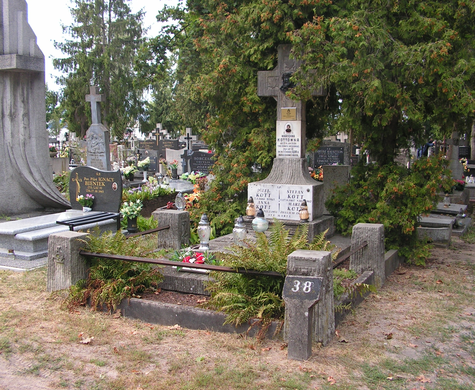 Grave of Kott family on Communal Cemetery in Włocławek.